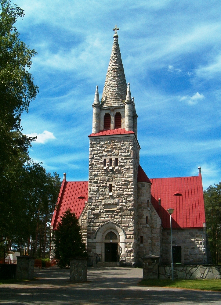 The Church of Nilsiä, Finland. Designed by Josef Stenbäck and built in 1905.